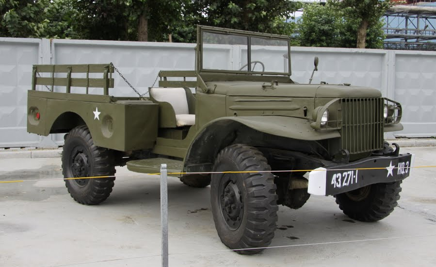 Verkhnyaya Pyshma Tank Museum 2011